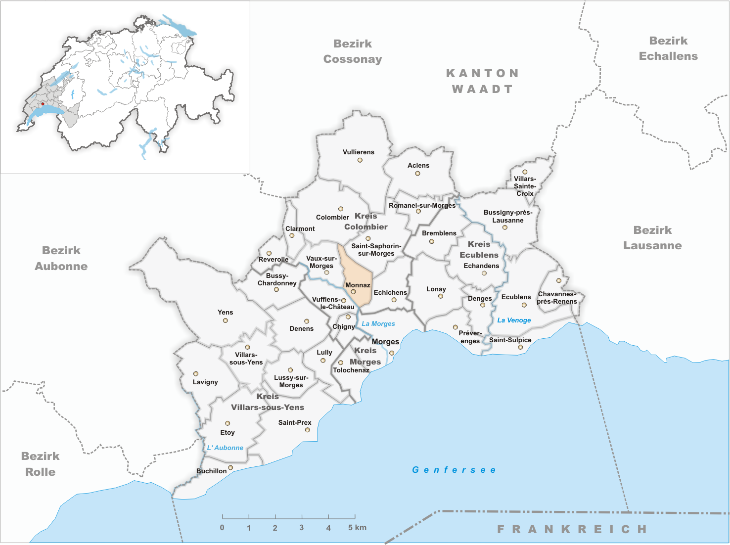 Municipality Monnaz